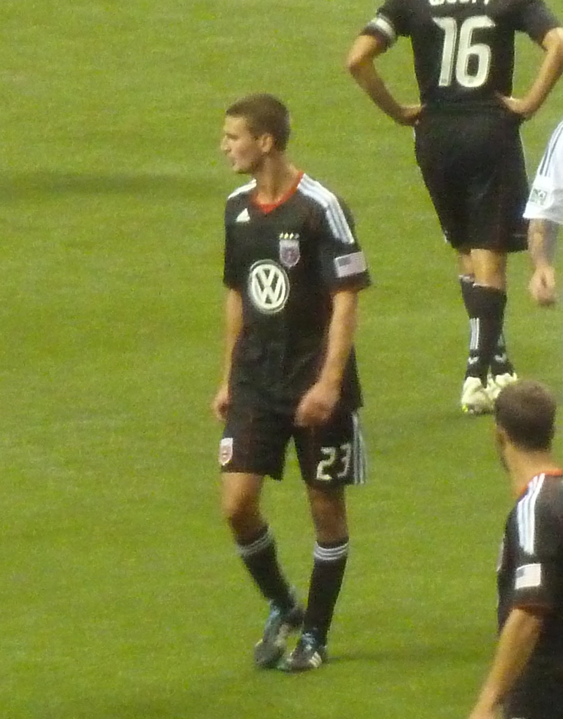 Perry Kitchen positioning himself during stoppage of play for a free kick.